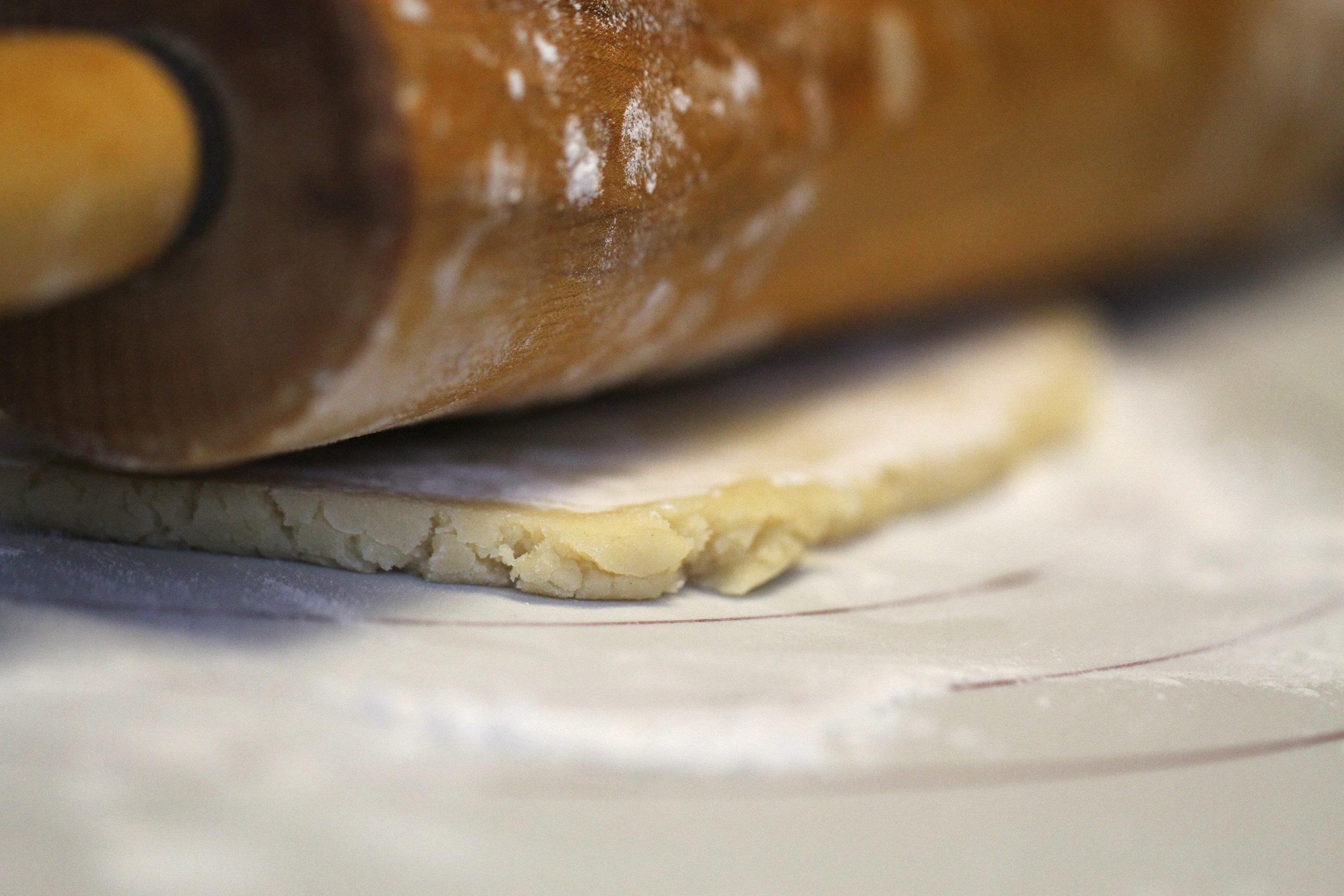 Rolling pin and cookie dough #2